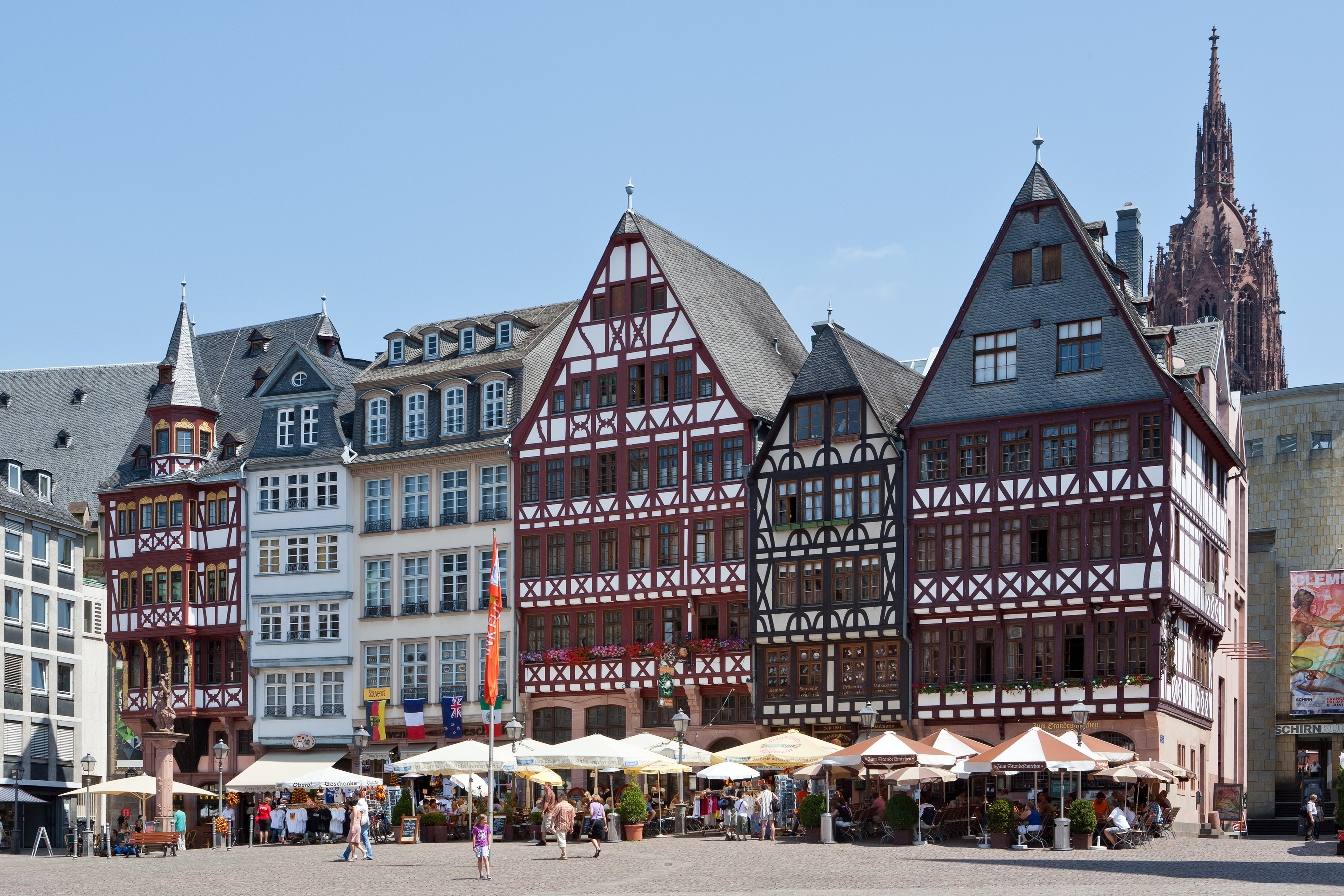 Frankfurt on the Main: Ostzeile (Eastern Row) at the Römerberg, historically correct actually Samstagsberg as seen from the southwest